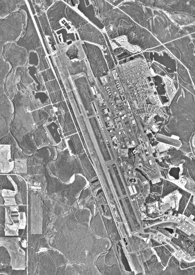 USGS orthophoto of Eielson Air Force Base in Fairbanks, Alaska, United States.